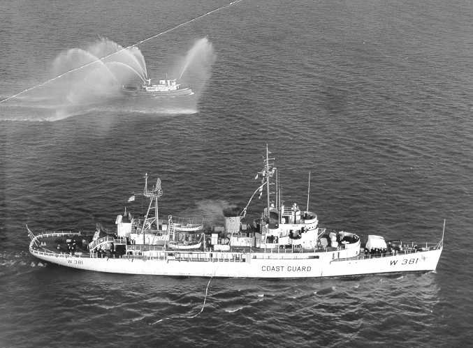 United States Coast Guard Cutter USCGC Barataria (WHEC-381), ex-WAVP-381, entering San Francisco Bay in January 1968 as she returns from Vietnam after Vietnam War service